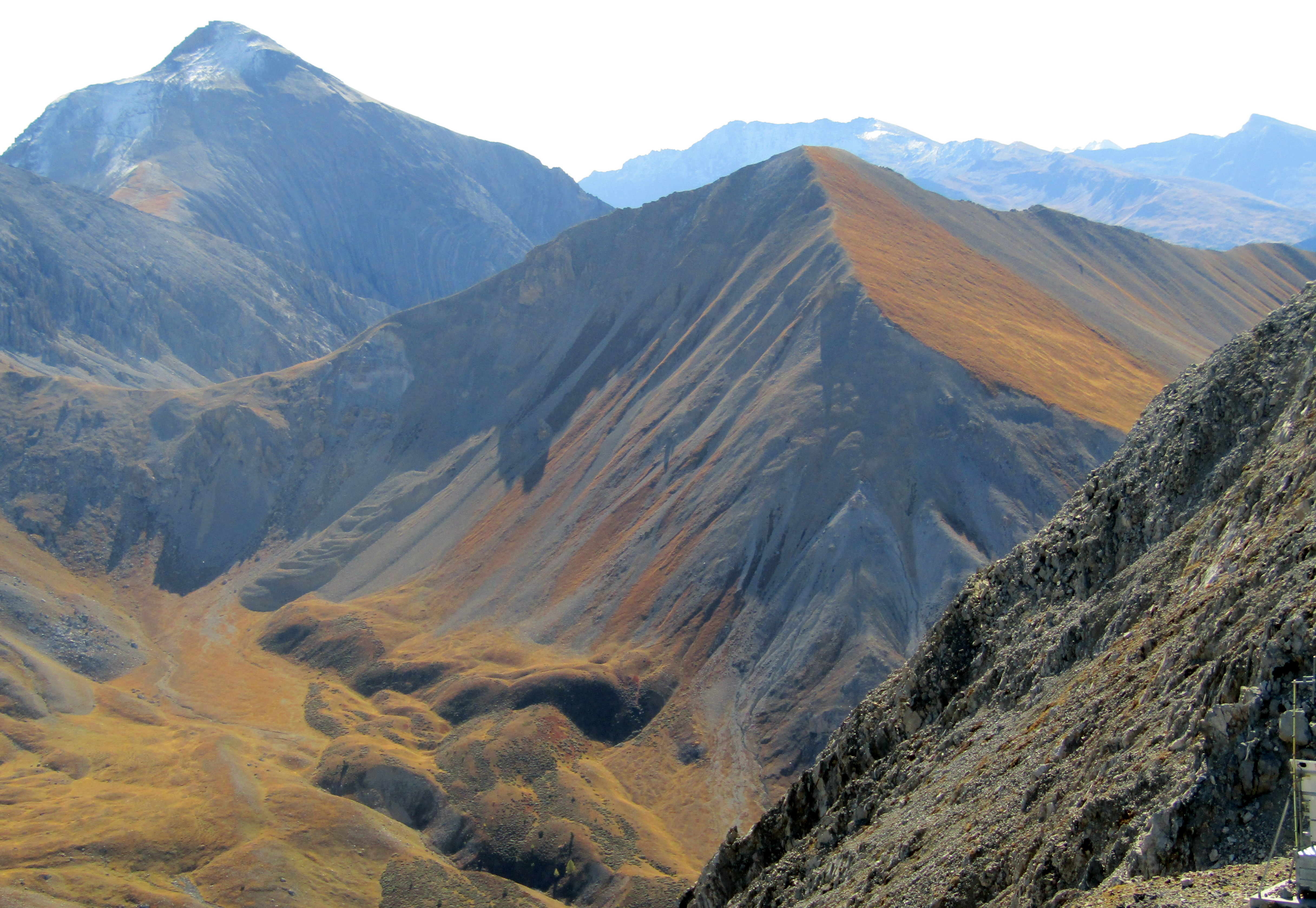 Pic du Lauzin (Cottian Alps) as seen from the Pointe de Pécé, on its left the Mount Chaberton